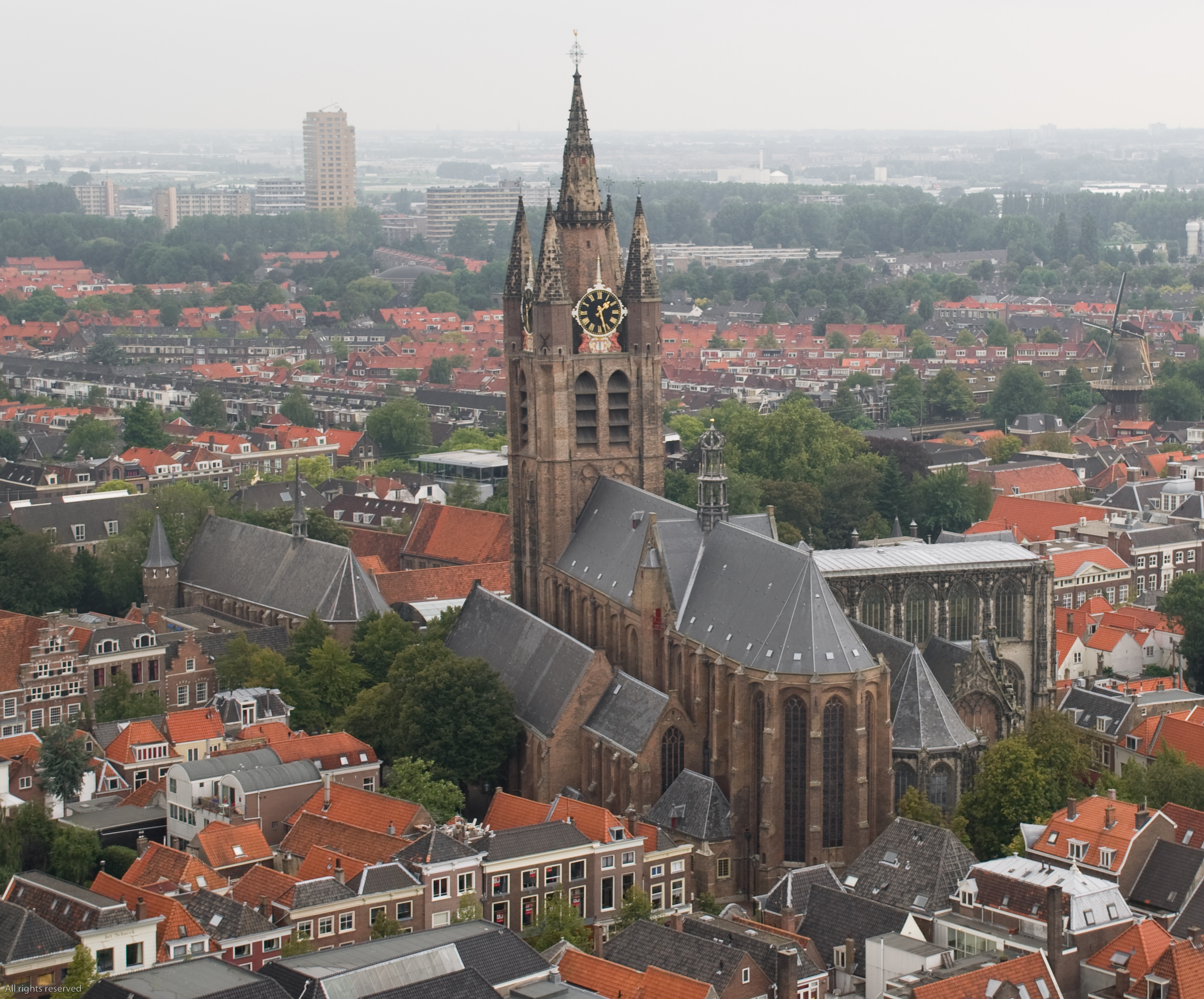 Oude kerk (Old church) Delft, taken from the top of the Nieuwe kerk (New church). With the Waalse Kerk left in the background